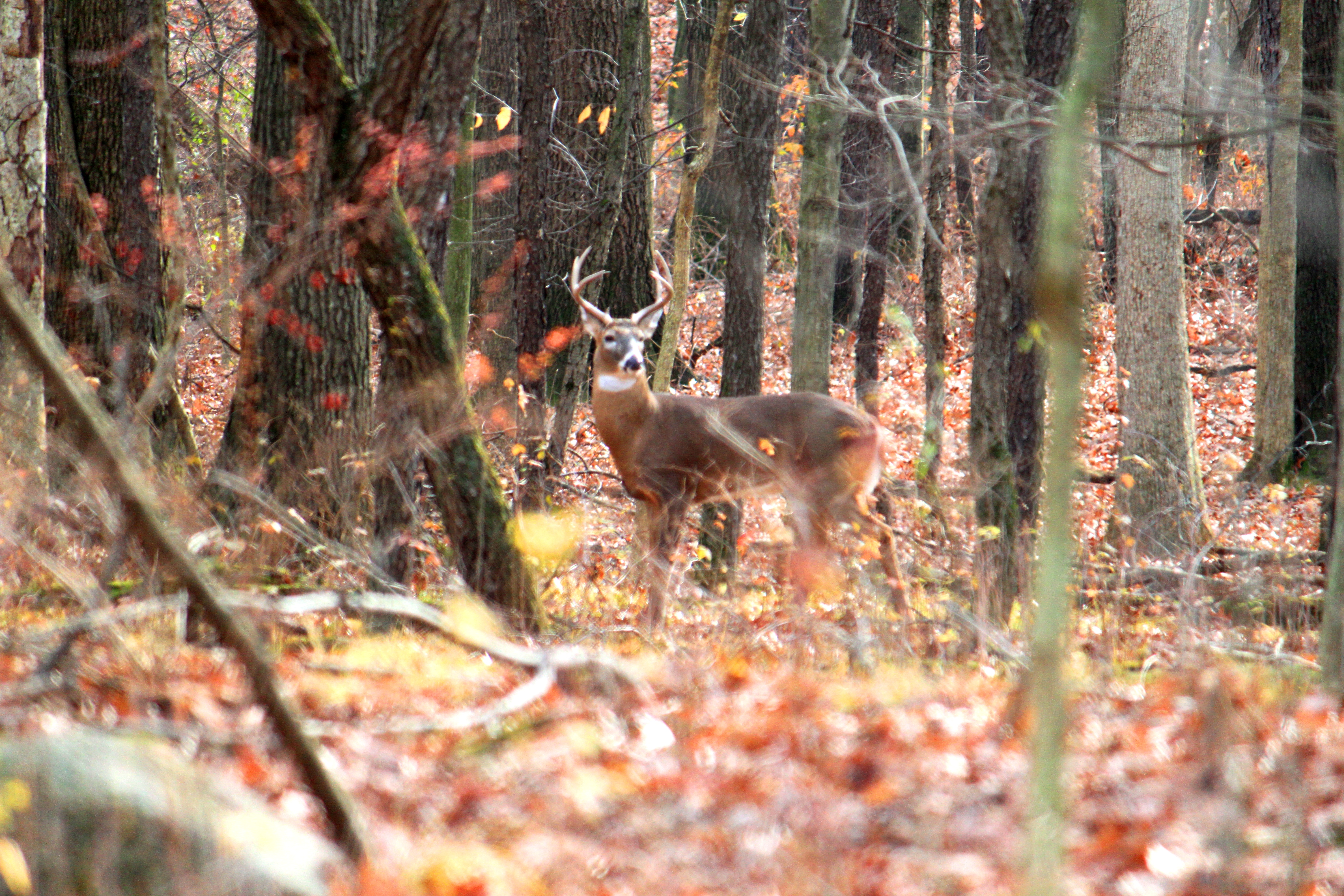 White-tailed deer buck in a wooded area, Kensington Metropark, Milford, Michigan.